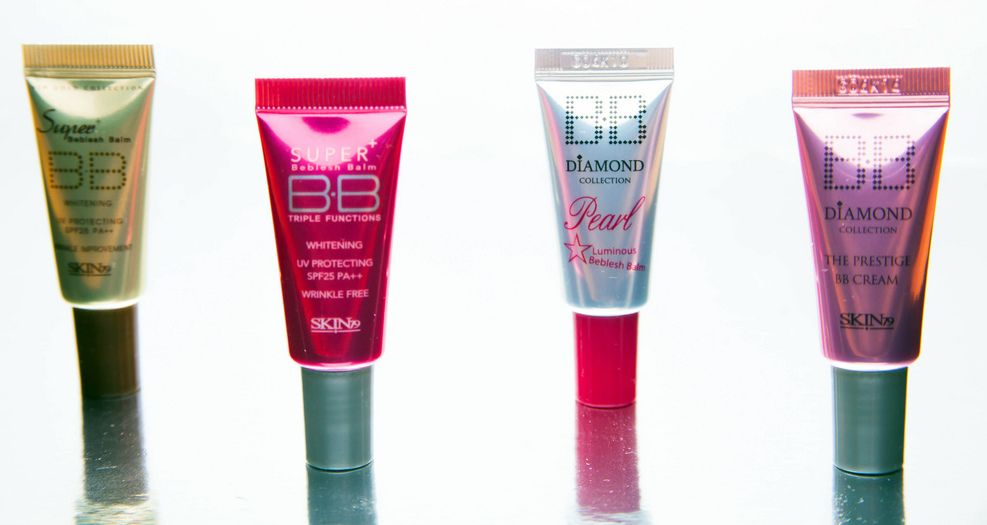 Selection of BB creams